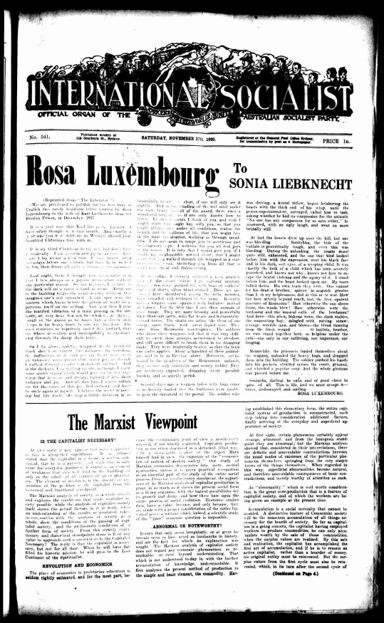 Front cover of The International Socialist on 27 November 1920